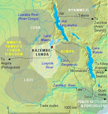 The Kazembe Kingdom (light area, and capital shown as red dot) in its prime in the first half of the 19th Century, before Msiri took south-east Katanga. Boundaries of territories and principal trade routes shown are approximate. See the article on Msiri for the same area in 1880.